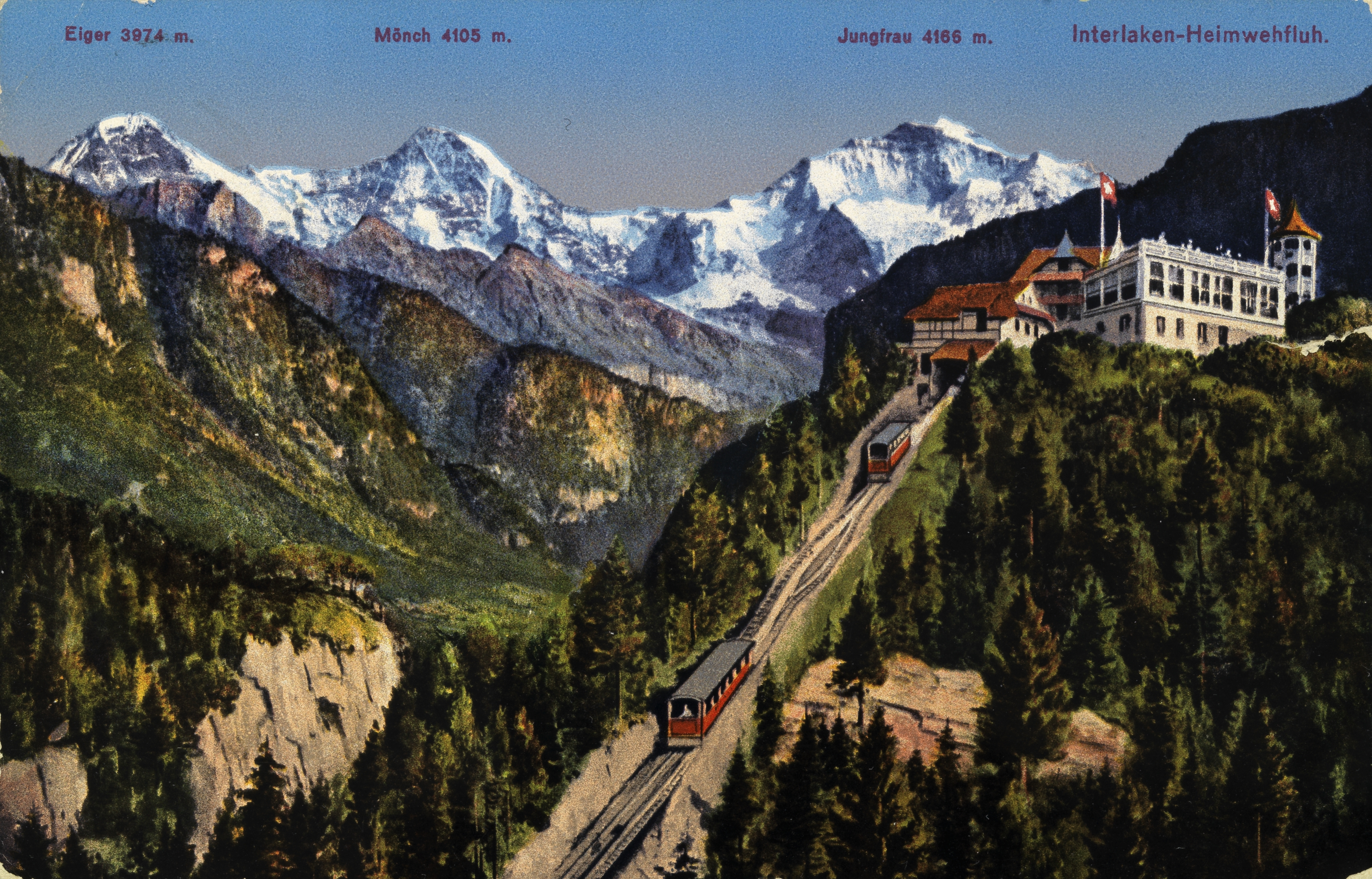 Hand-coloured postcard depicting the Funicular Interlaken–Heimwehfluh, with Eiger, Mönch and Jungfrau in the background. Stamped on September 1st 1918.